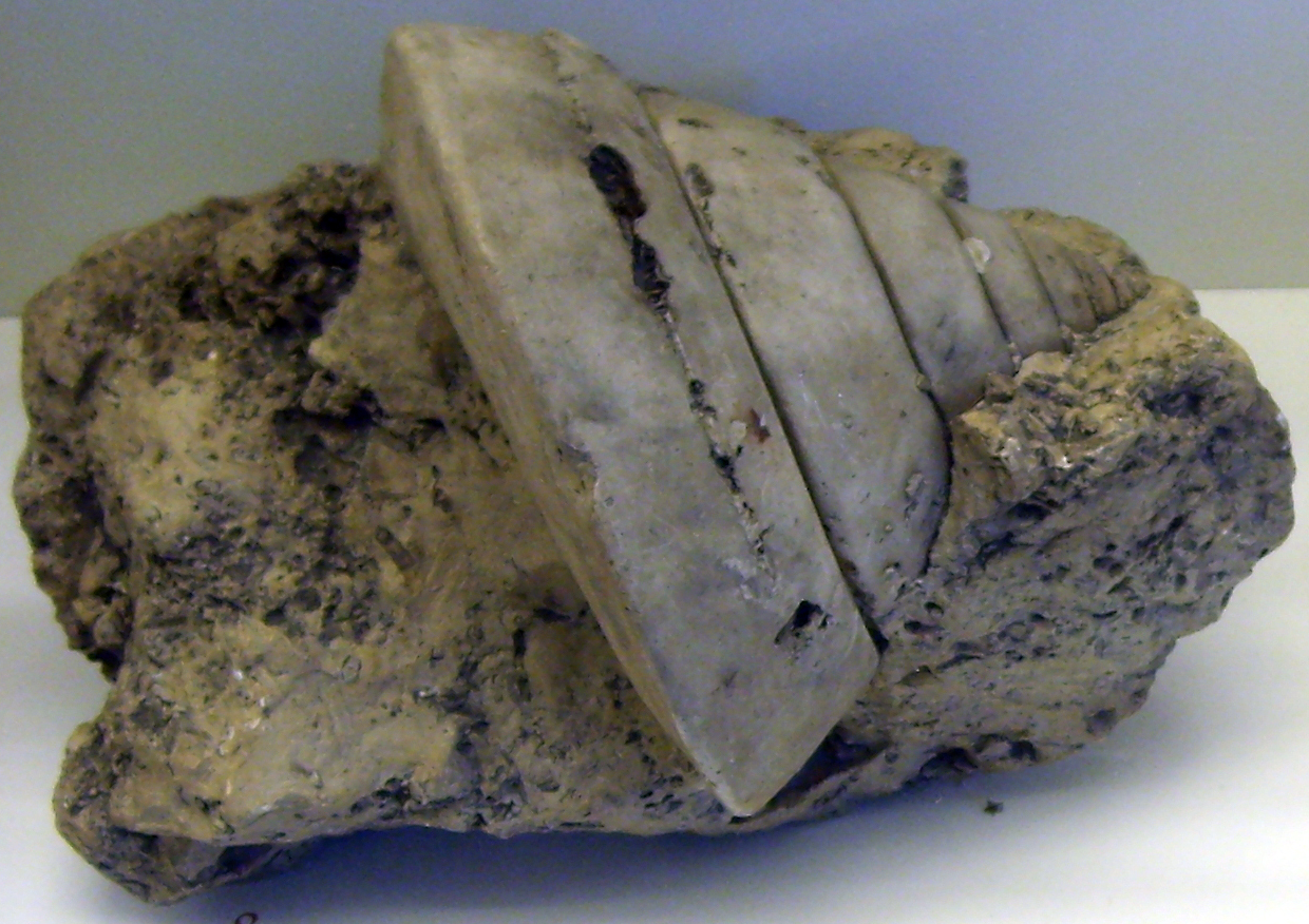 Pleurotomaria niloticiformes fossil at the Geological Museum in Copenhagen.